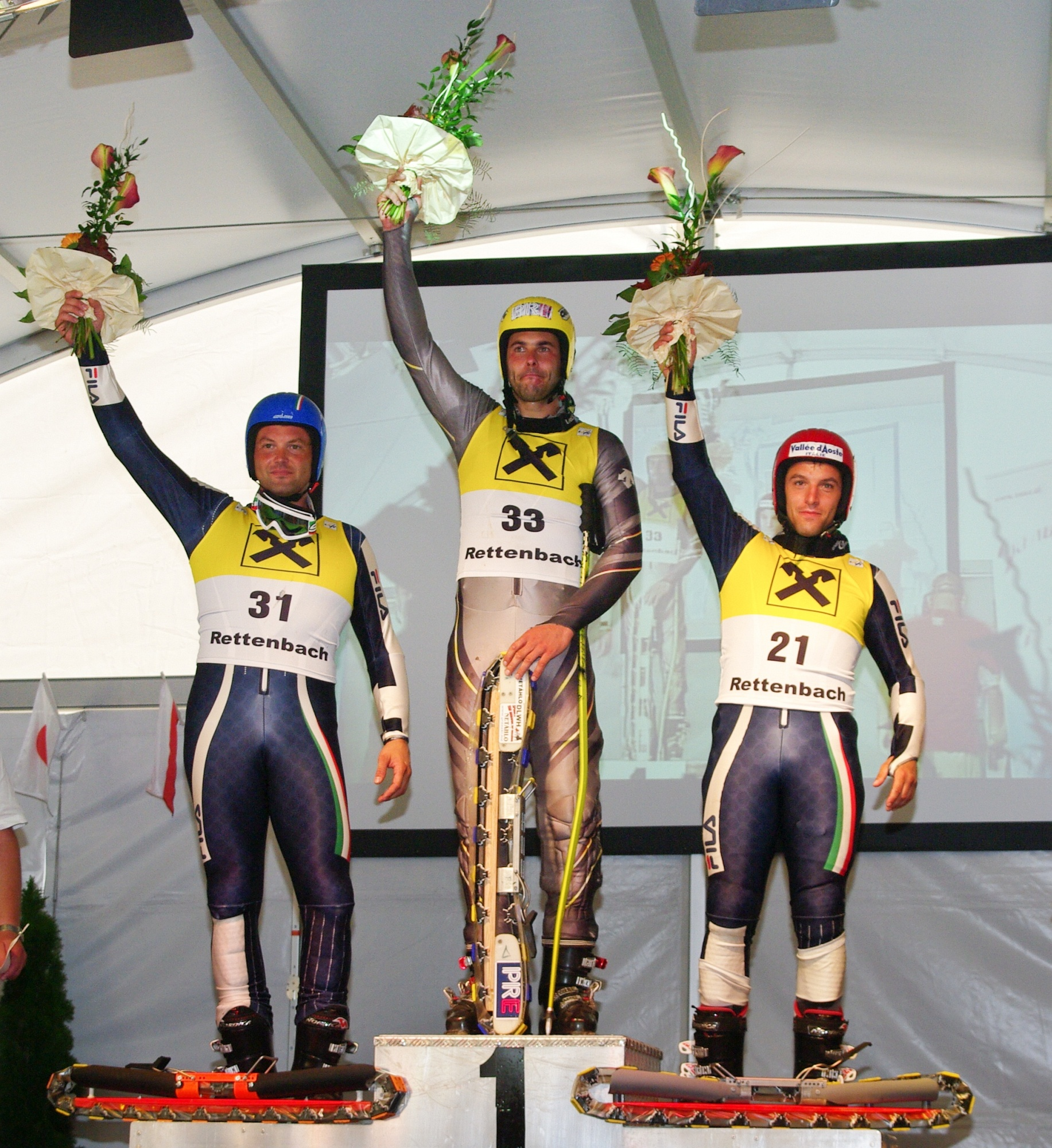 Grass Skiing World Championships 2009 in Rettenbach, Austria. Men's Giant Slalom, Flower Ceremony: 1st Place: Jan Němec (CZE), 2nd Place: Stefano Sartori (ITA), 3rd Place: Edoardo Frau (ITA)